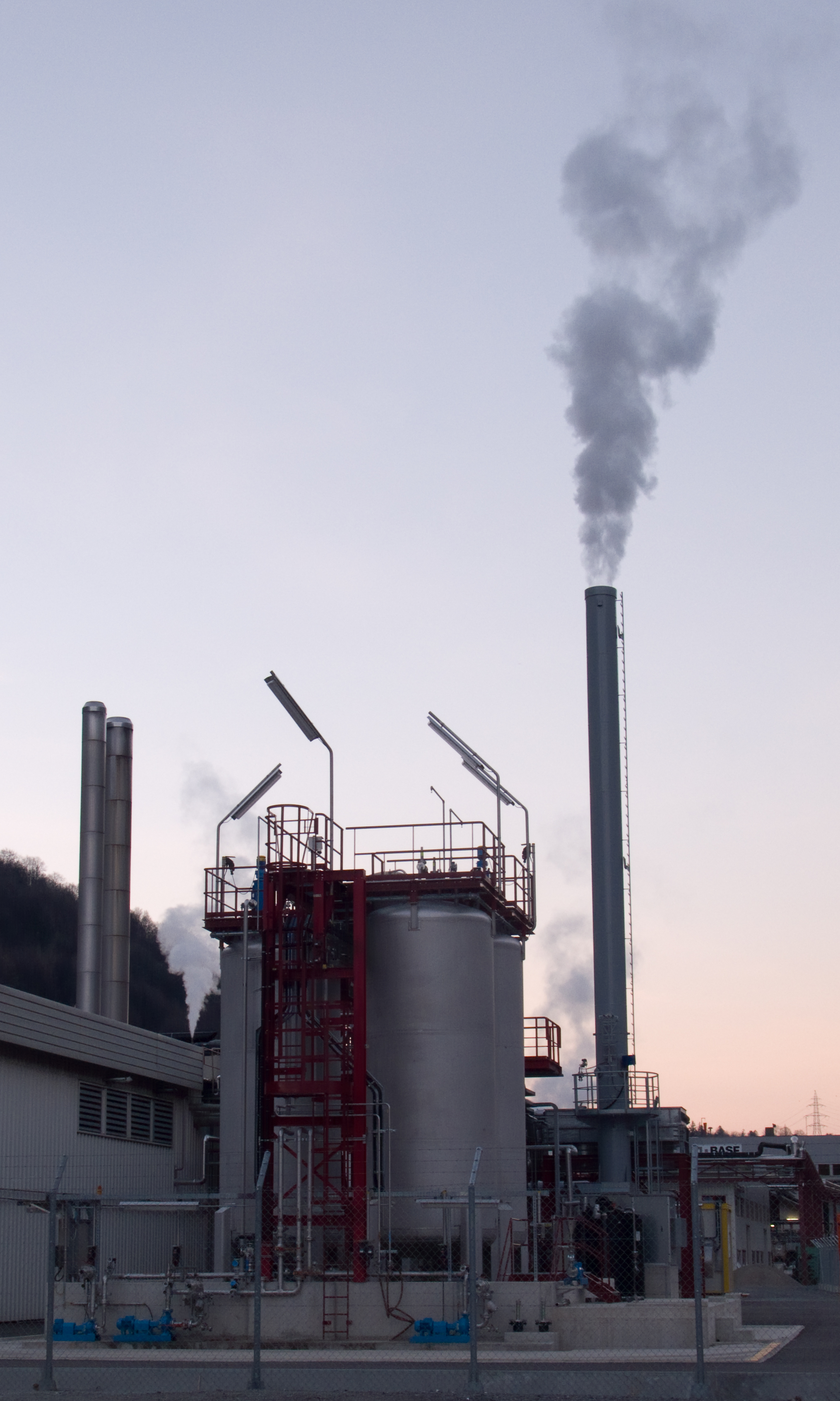 Former BASF, now Siegfried Chemical factory, Evionnaz, Valais, Switzerland